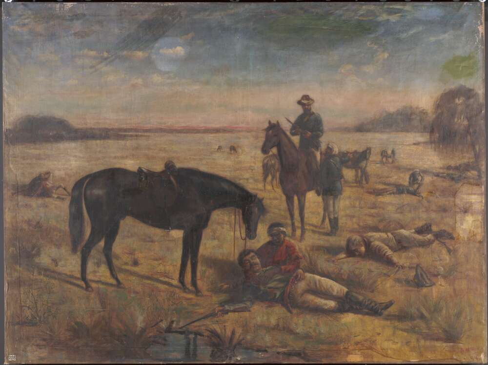 Death of Captain Starlight with his head in Warrigal's lap, oil on canvas; 137.5 x 183 cm.